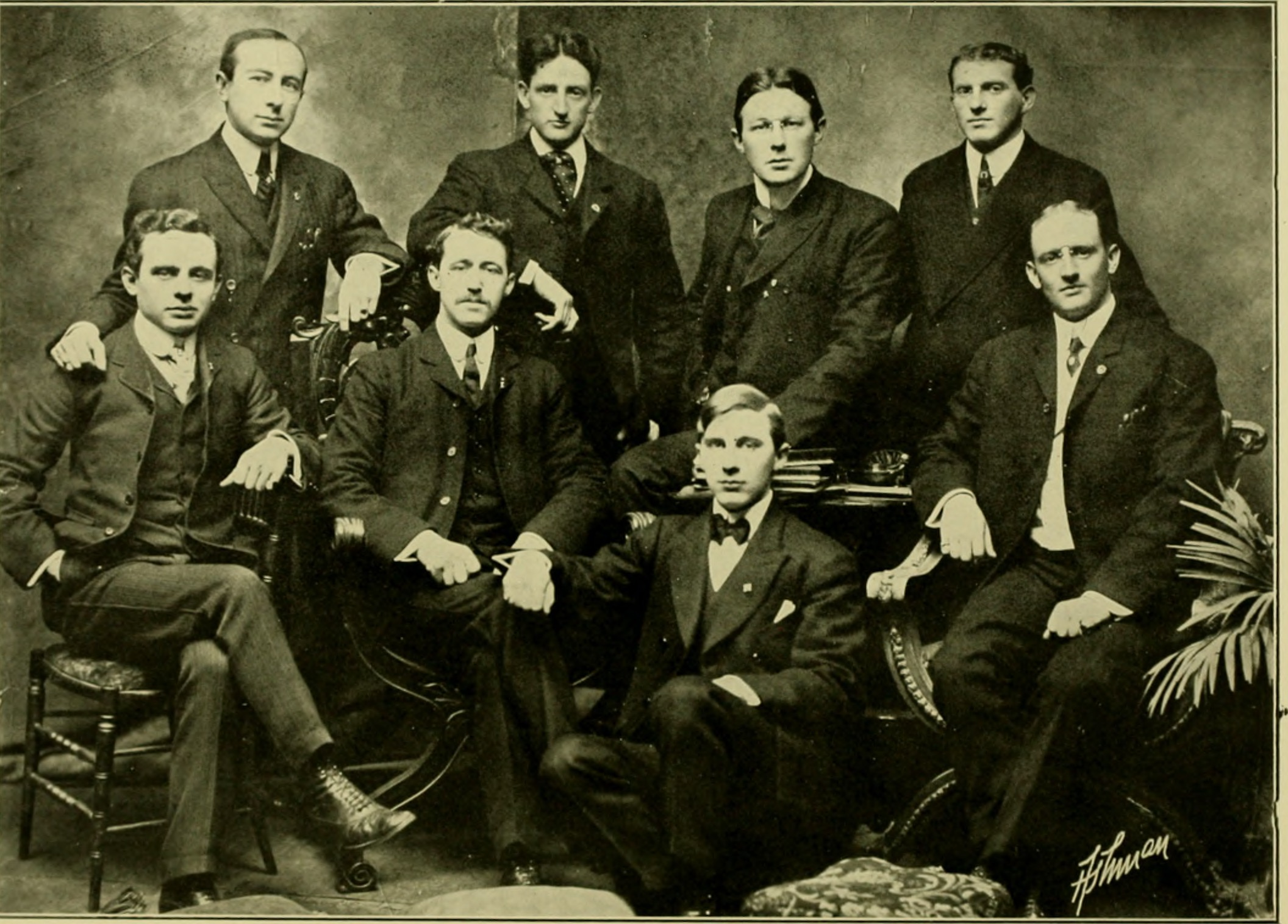 Class Officers Title: Bones, molars, and briefs Year: 1904 (1900s) Authors: University of Maryland (1812-1920) University of Maryland (1812-1920). School of Medicine University of Maryland (1812-1920). Dental Dept University of Maryland (1812-1920). Law Dept Subjects: University of Maryland (1812-1920) University of Maryland (1812-1920). School of Medicine University of Maryland (1812-1920). Dental Dept University of Maryland (1812-1920). Law Dept Publisher: (Baltimore, Md. : The University